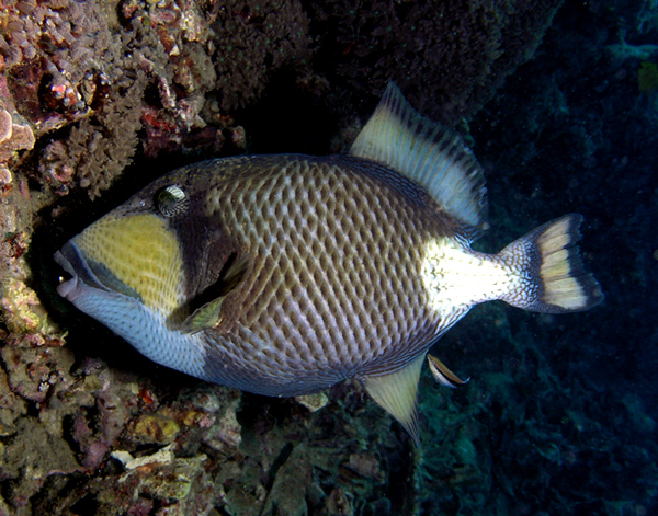 Titan triggerfish moving rocks from its nest with its teeth. Taken in East Timor.